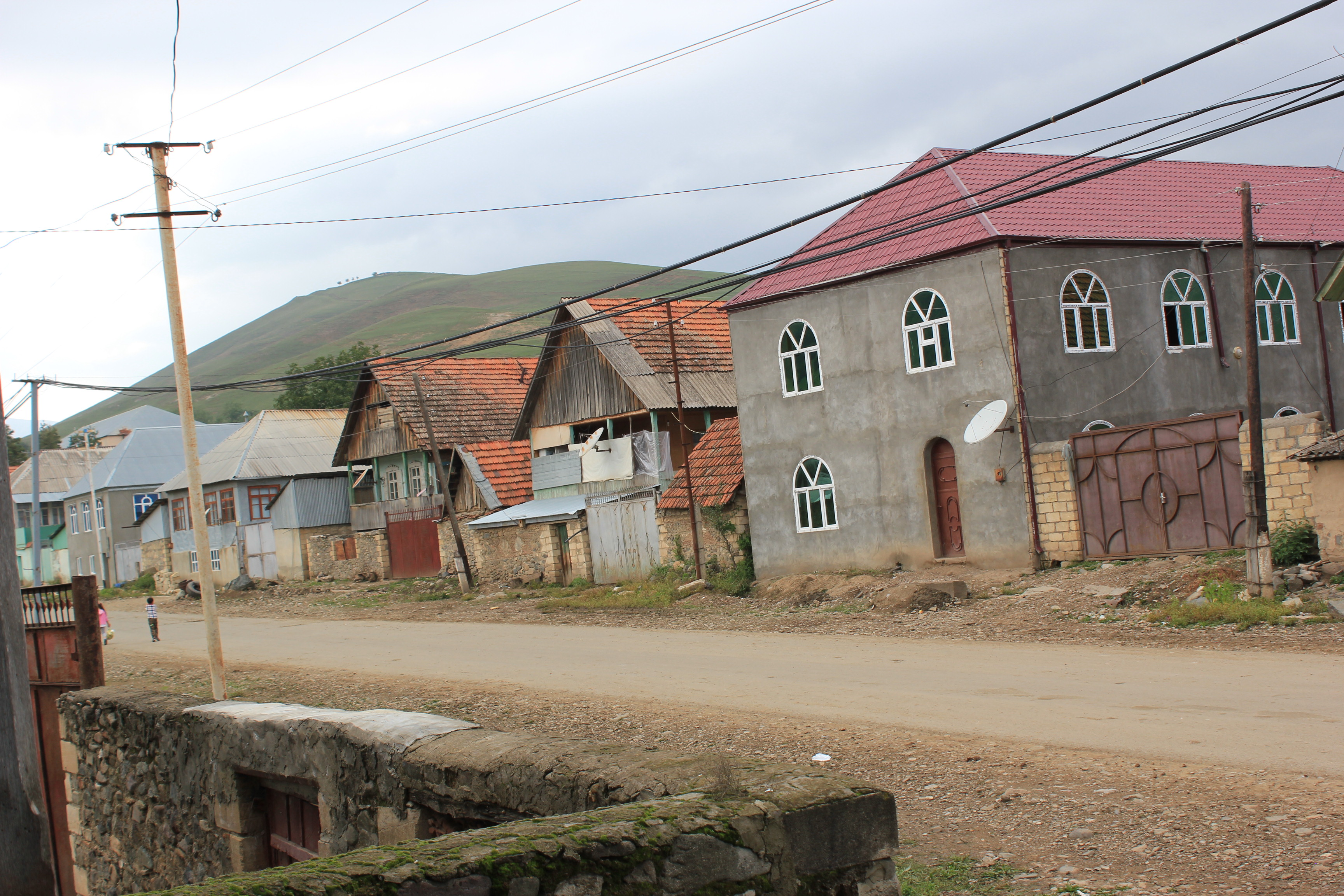 Novoivanovka in Azerbaijan - houses